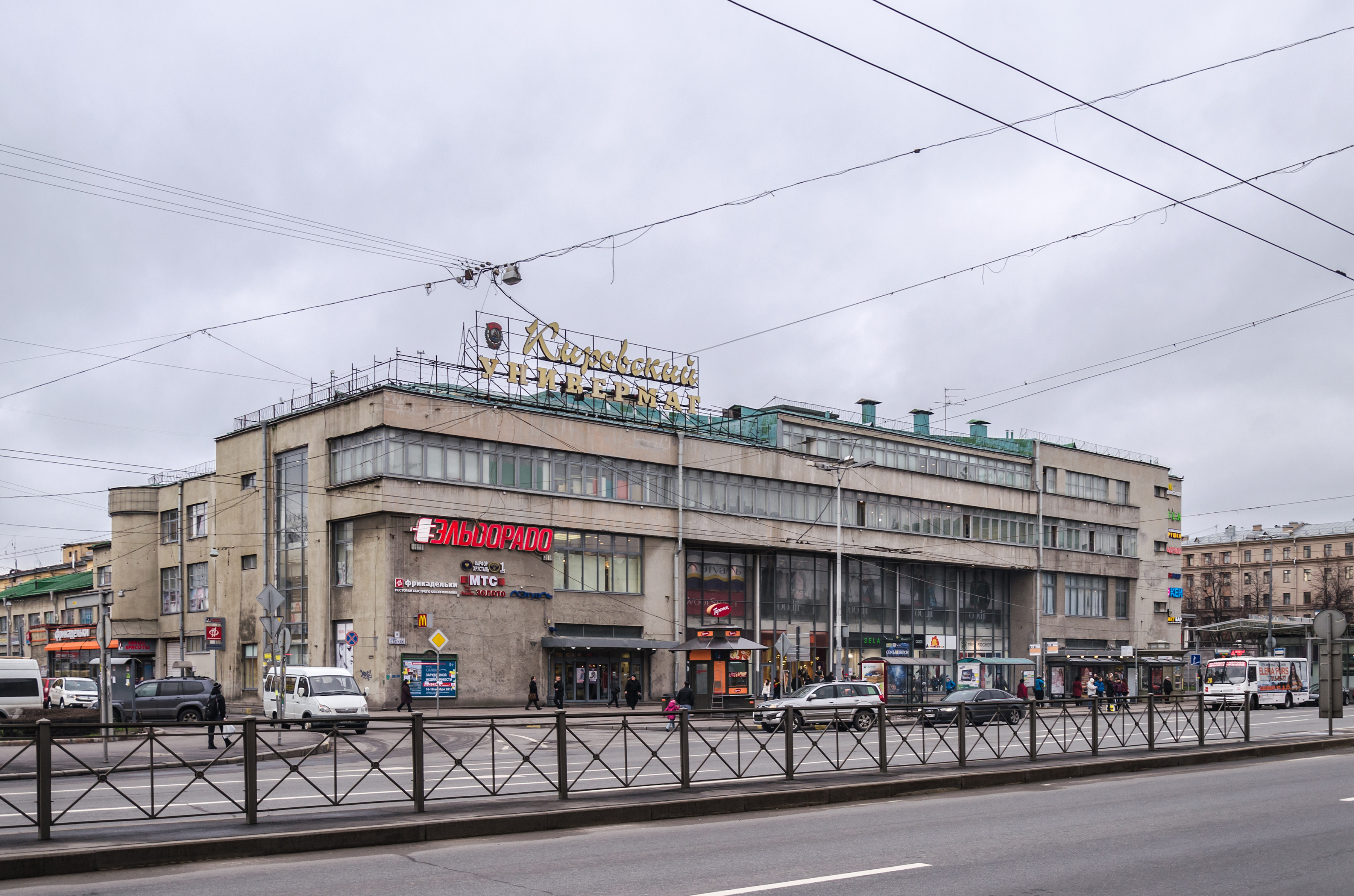 Kirovsky Department Store in Saint Petersburg